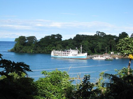 MV Ilala Ferry on Lake Malawi in Nkatha Bay.